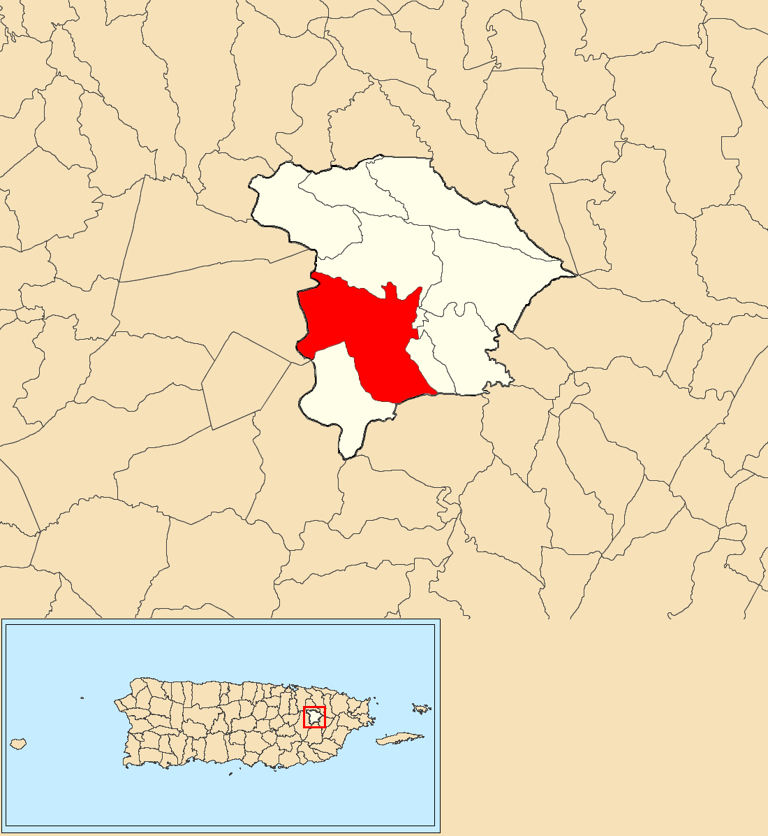 Rincón, Gurabo, Puerto Rico locator map